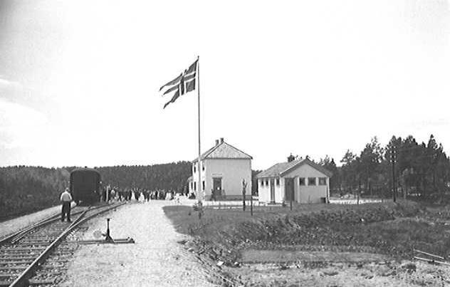 Vatnstrøm Station in Iveland, Norway, on the Sørland Line, known as Vatnestrøm Station after 1958